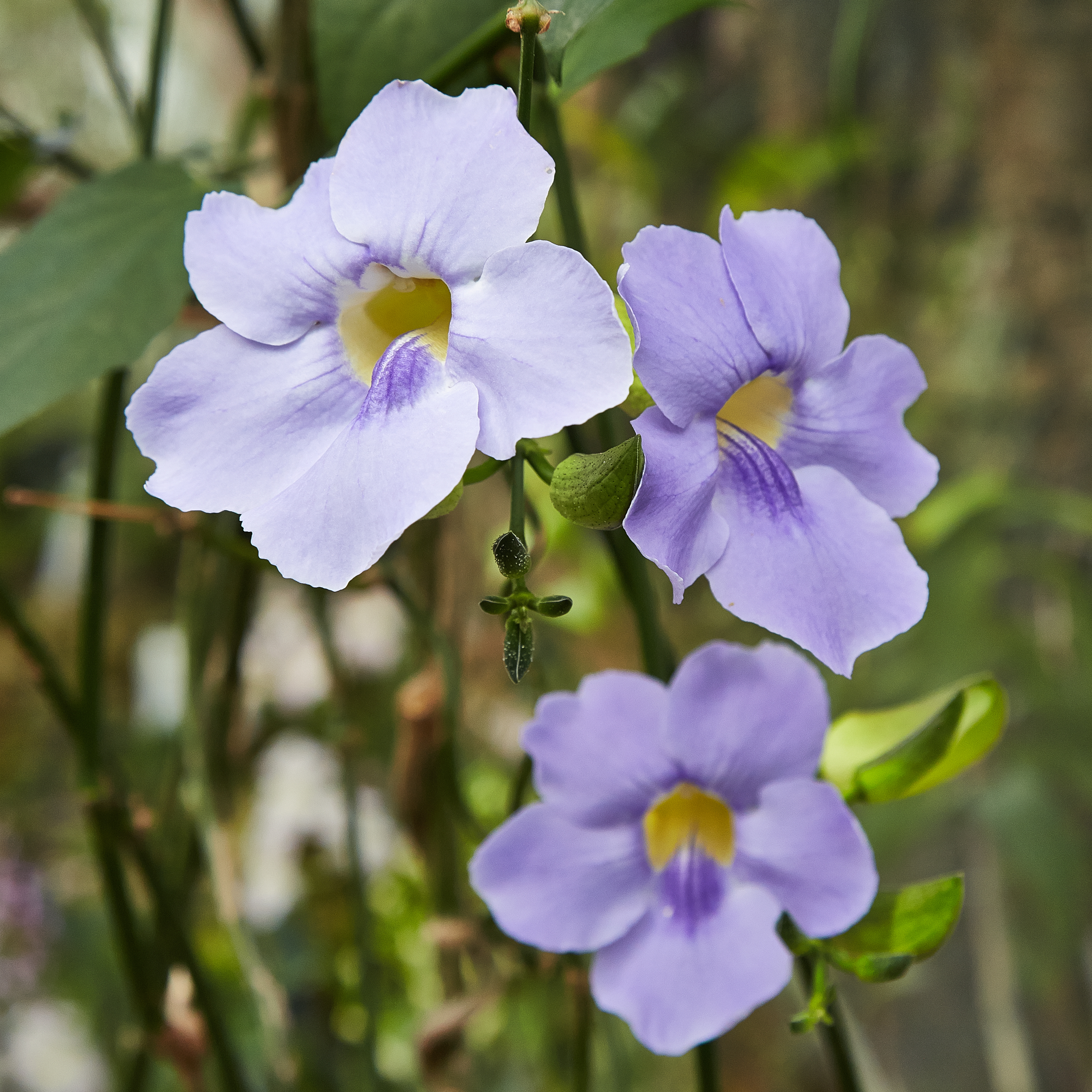 Thunbergia grandiflora identified with the help of existing labeling in Bergianska trädgården.